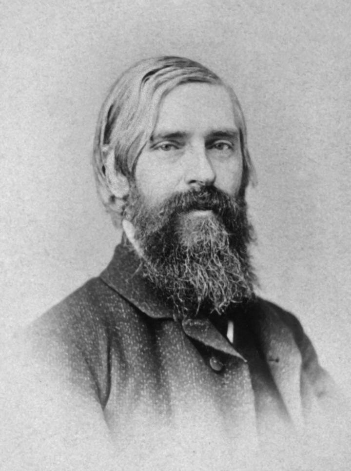 Carl Jakob Adolf Christian Gerhardt